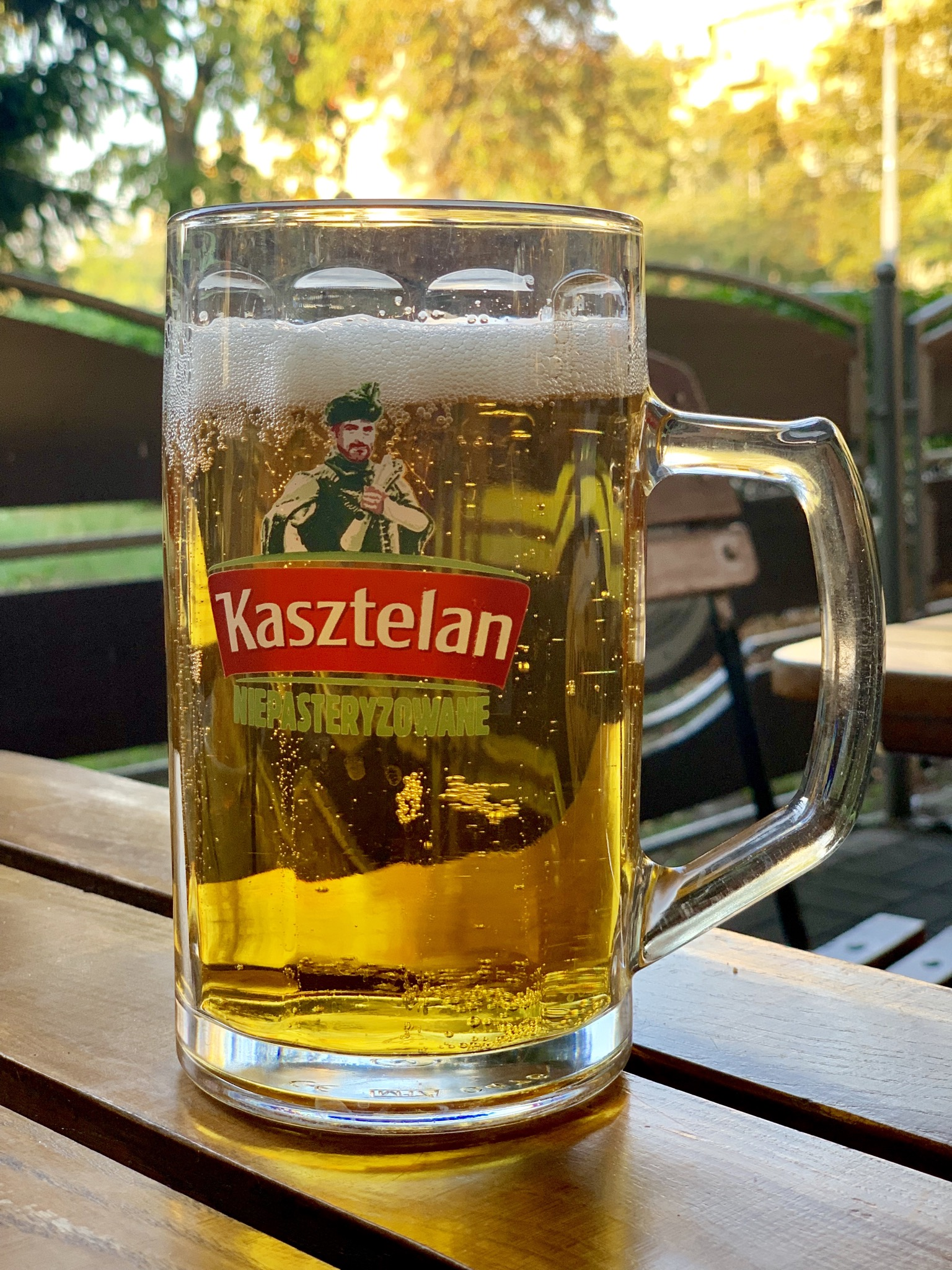 Kasztelan beer in a beer mug, Warsaw, Poland